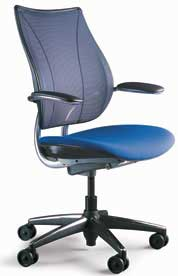 Niels Diffrient for Humanscale: Liberty chair, introduced in 2004